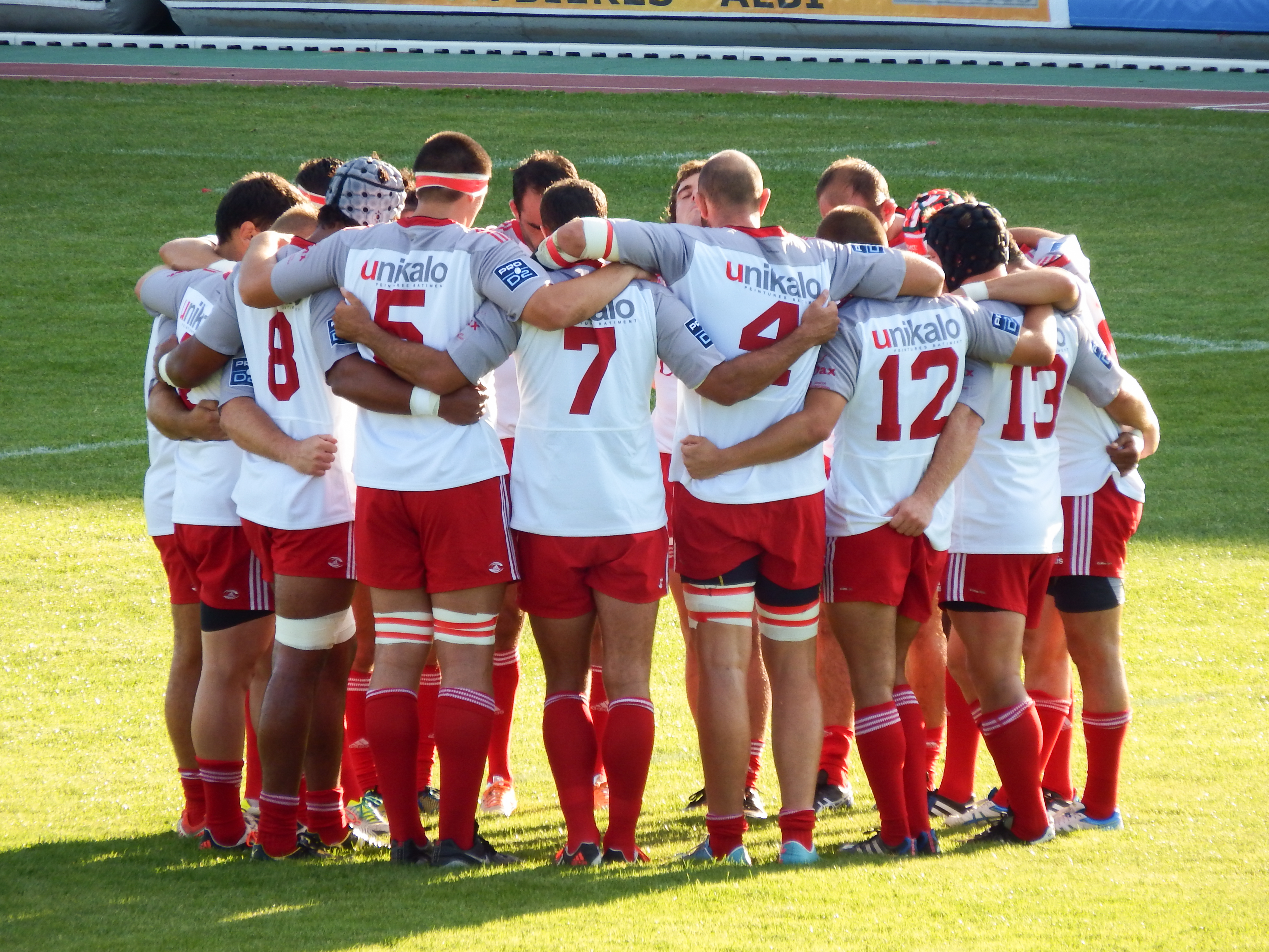 Pro D2 2014-2015 — 13 September 2014, stadium municipal d'Albi. Match between: SC Albi — US Dax